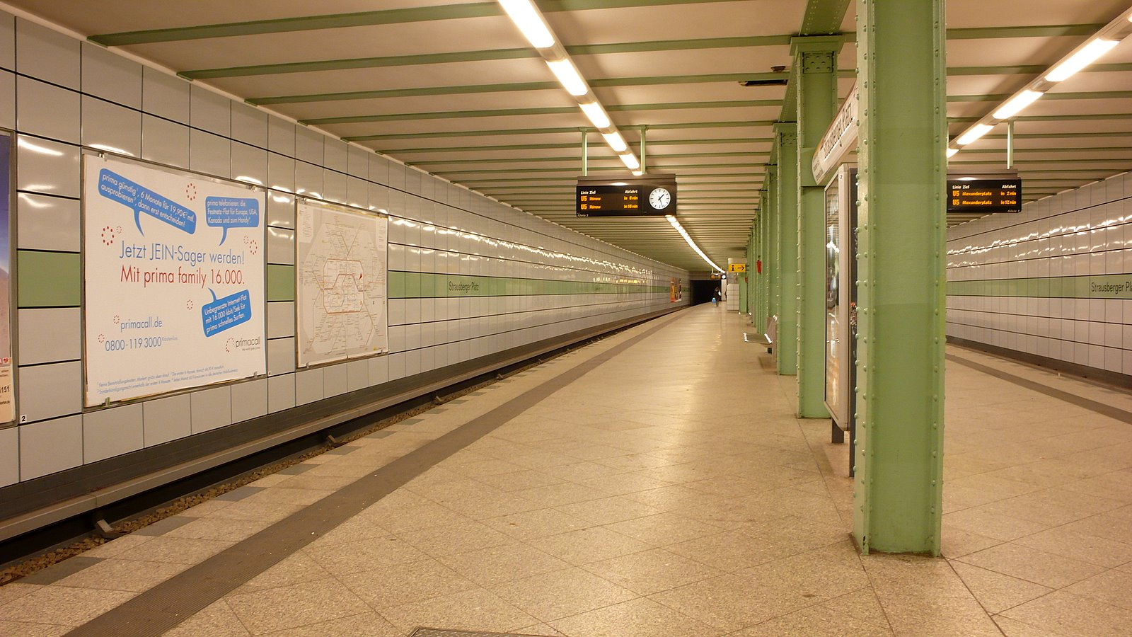 Strausbergerplatz